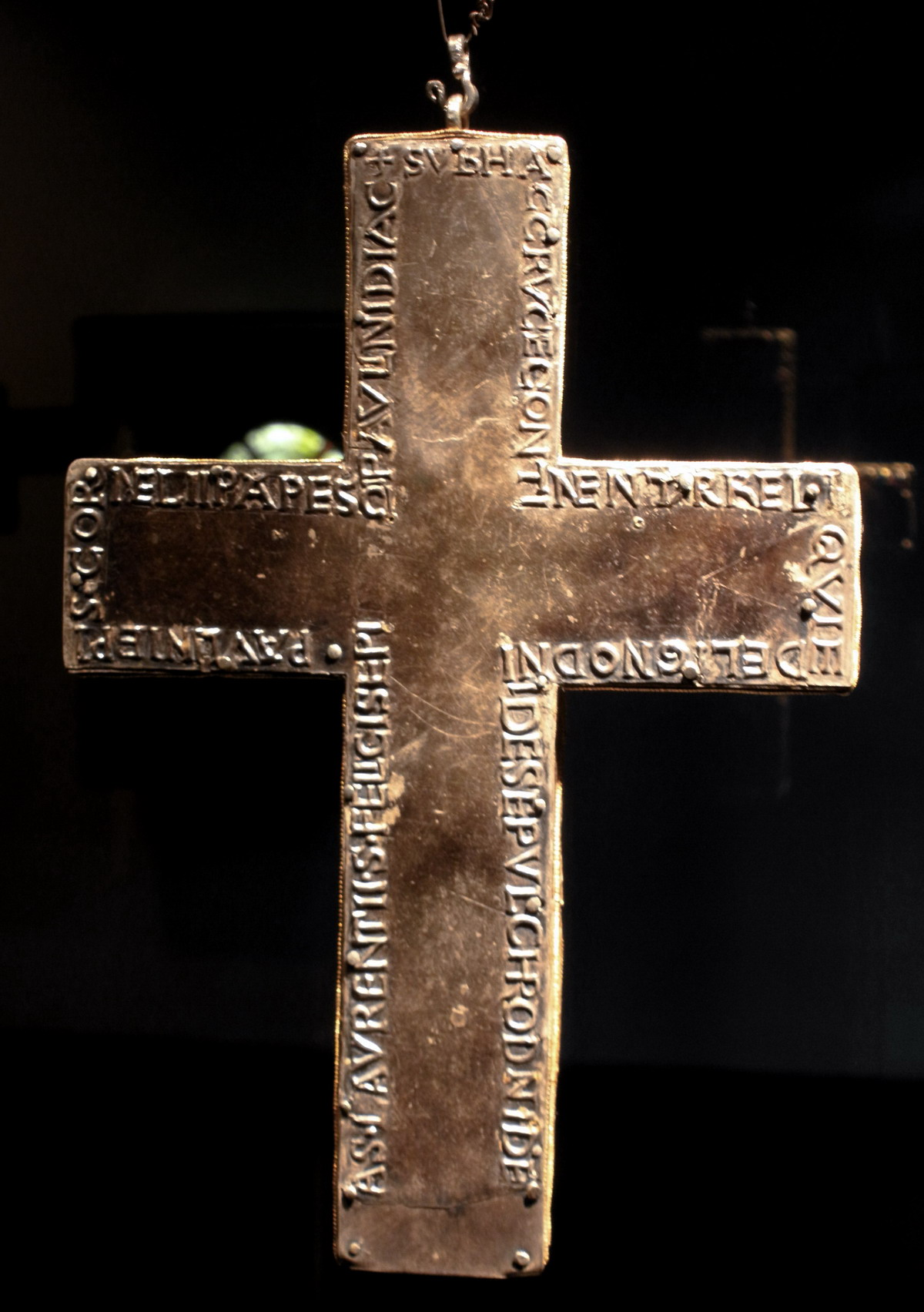 Back of the so-called pectoral cross of Saint Servatius in the church treasury of the Basilica of Saint Servatius, Maastricht, Netherlands. Back: silver on wood, engraved. Trier, ±1039, probably a gift from emperor Henry III.